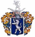 Coat of arms of Köveskál, Hungary